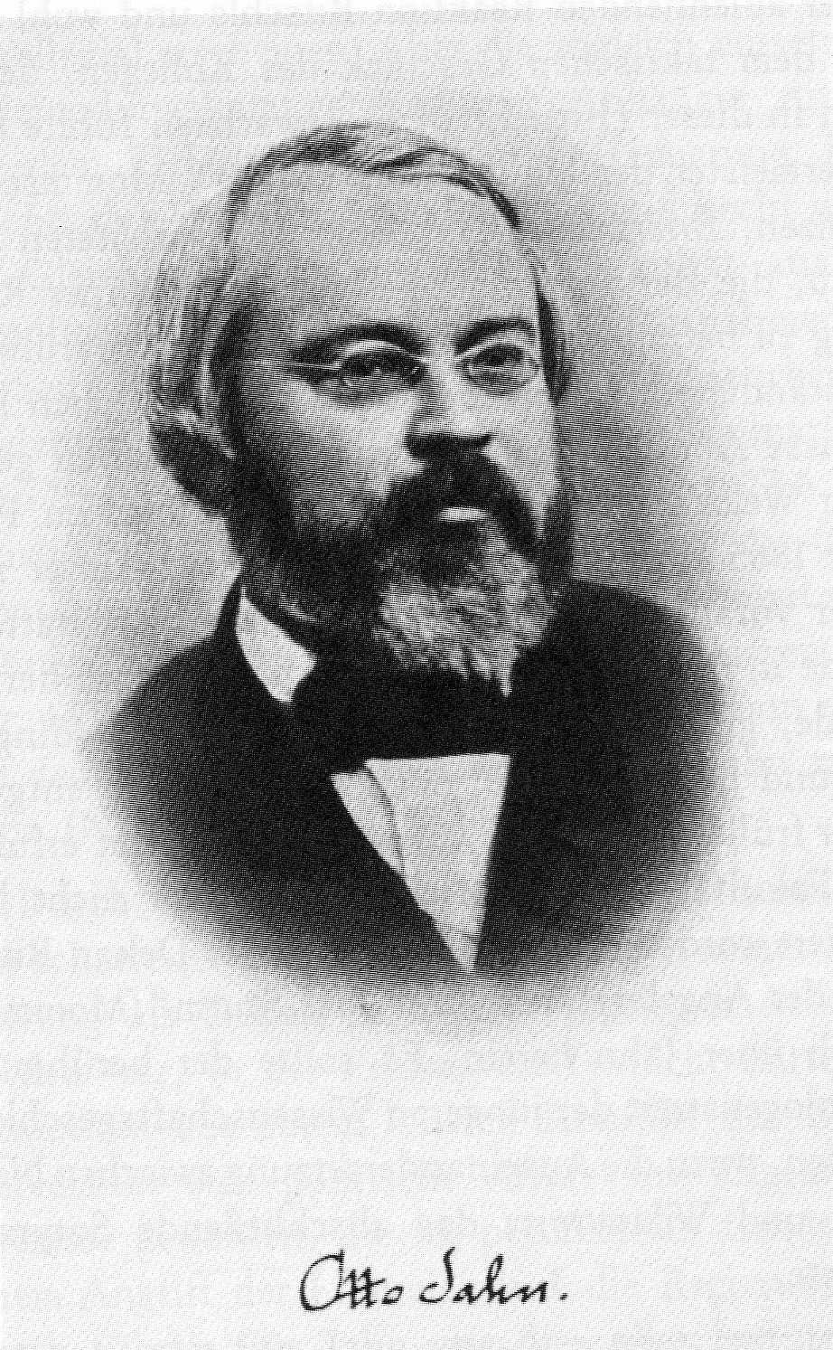 Otto Jahn in Bonn, photograph